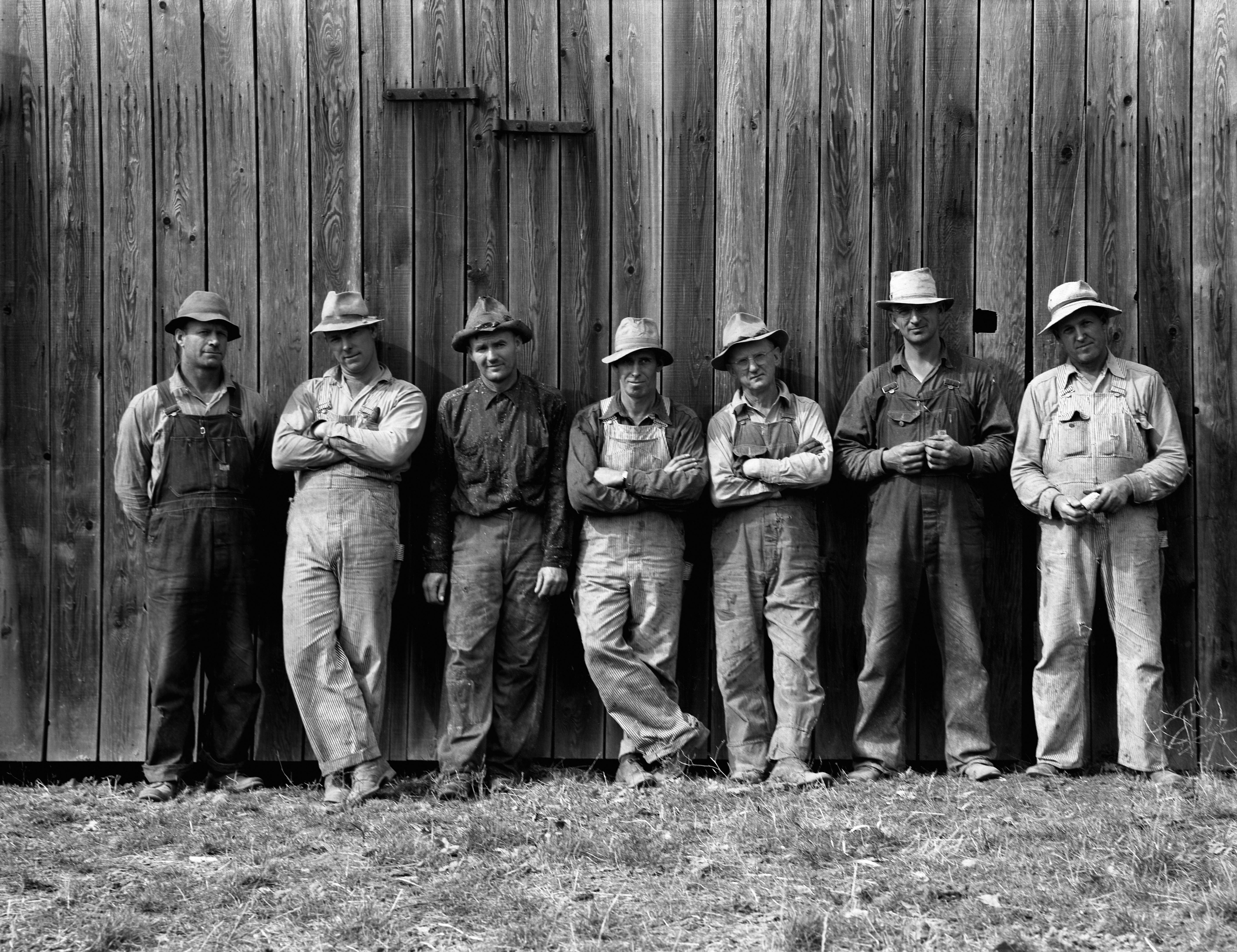 Here are the farmers who have bought machinery cooperatively. Photographed just before they go to dinner on the Miller farm where they are working. West Carlton, Yamhill County, Oregon.